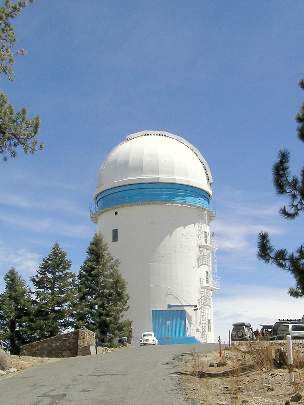 The building housing the 2.12m telescope installed in San Pedro Martir National Observatory, Baja California, Mexico.